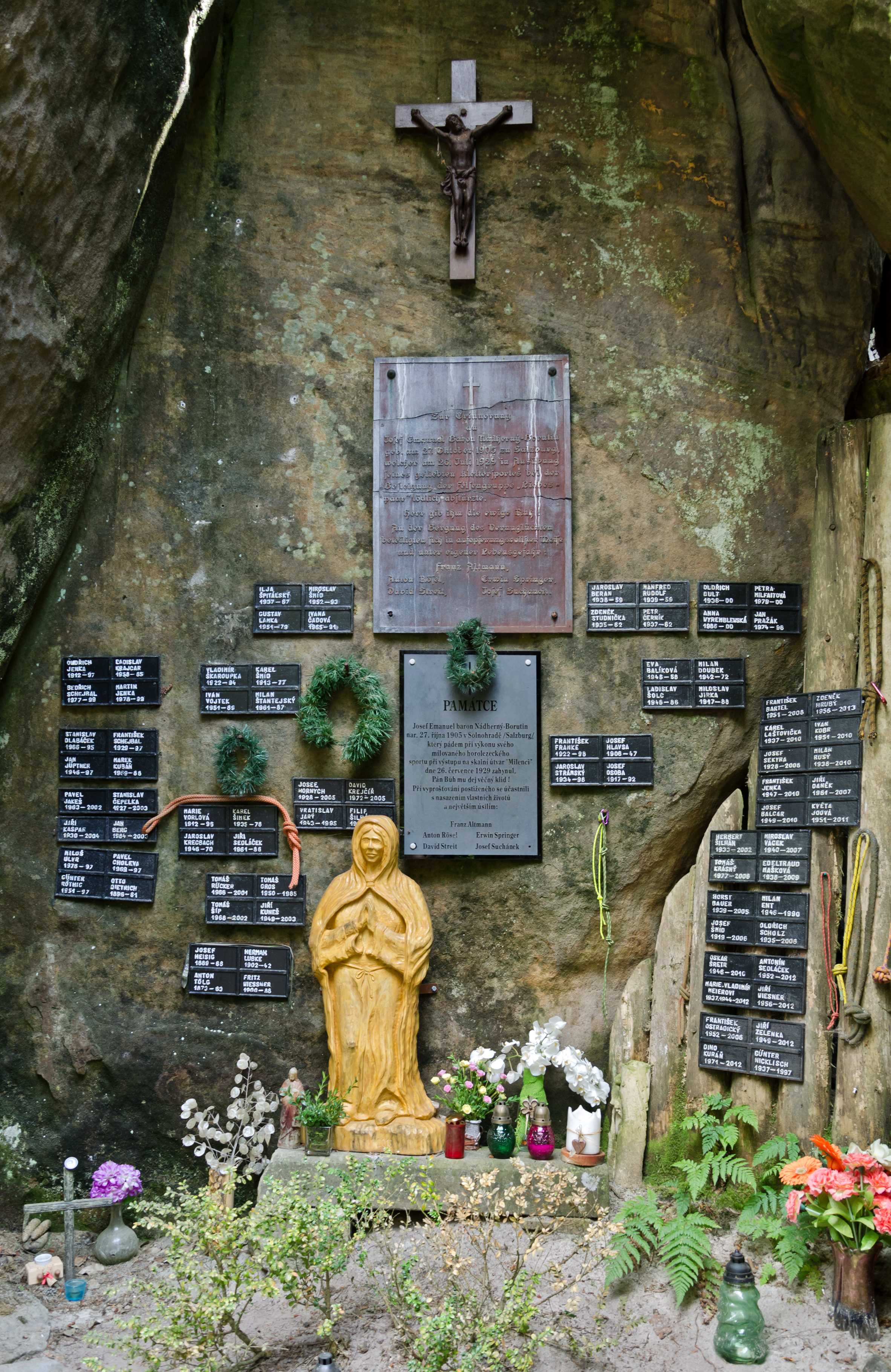 Adršpach-Teplice Rocks, chapel of mountain victims